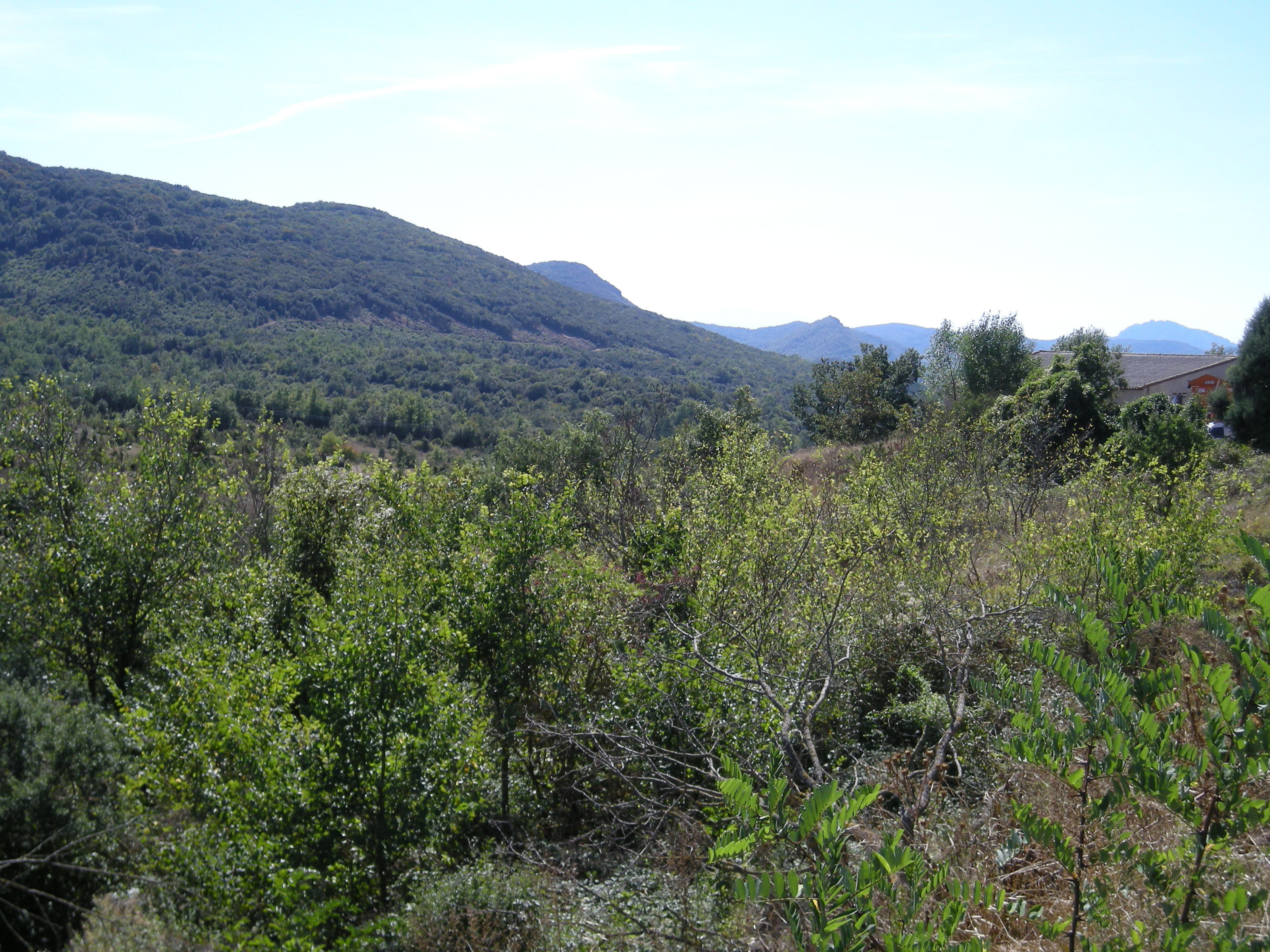 Pyrenees from Mouthoumet (Aude)